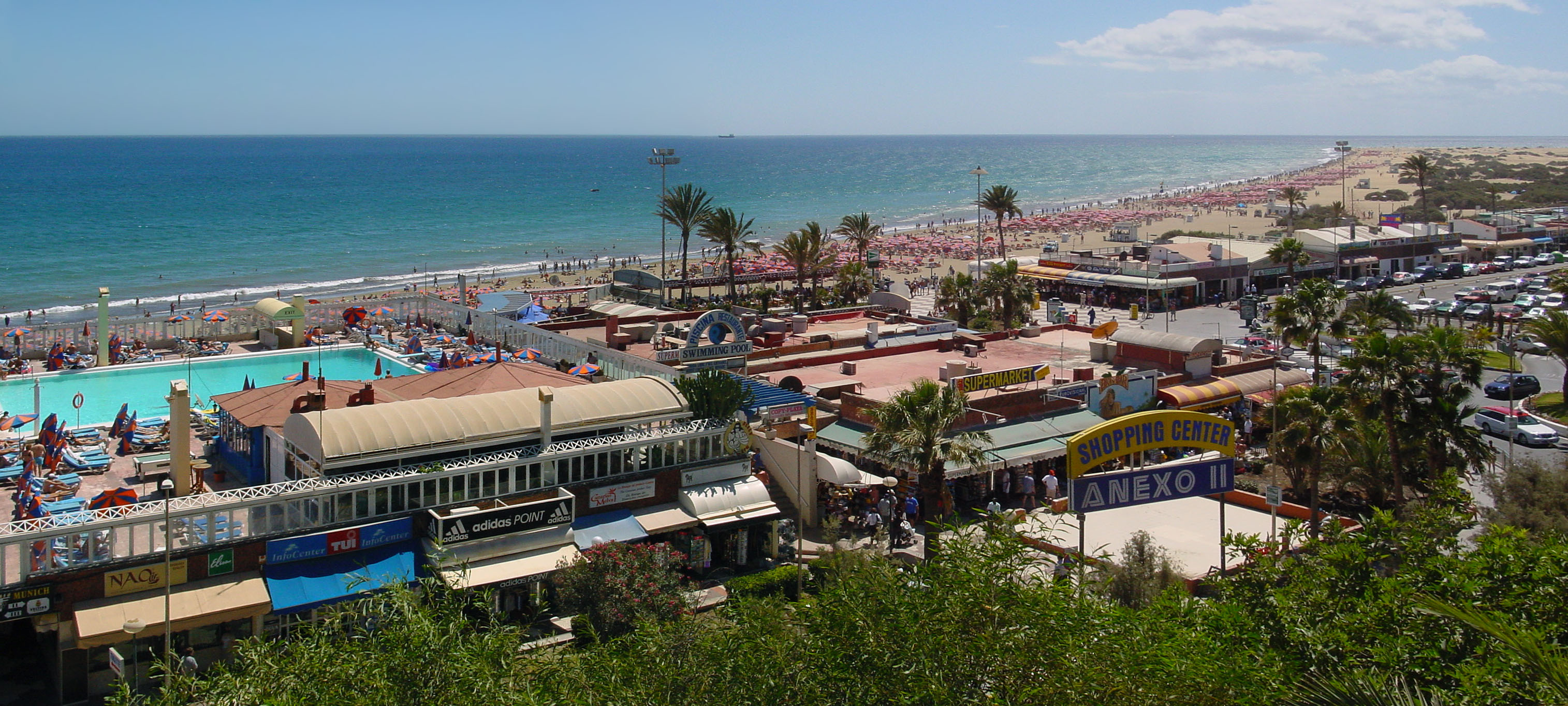 Gran Canaria, Playa del Inglés shopping centre and the beach, looking direction South.